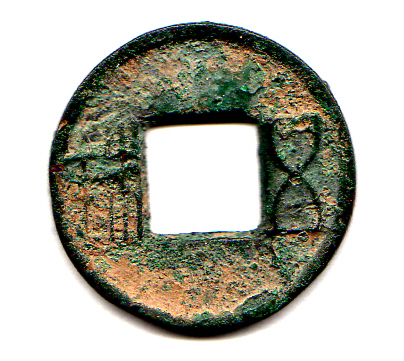 Wuzhu Coin - Han Dynasty From my own collection.